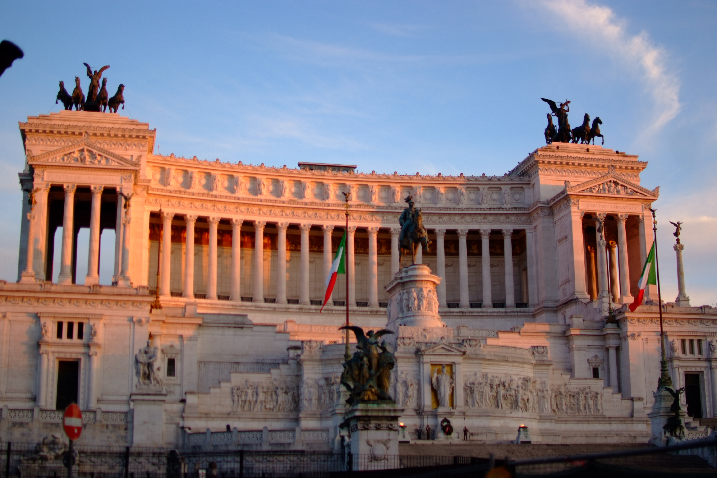 Altare della patria, Rome, Italy